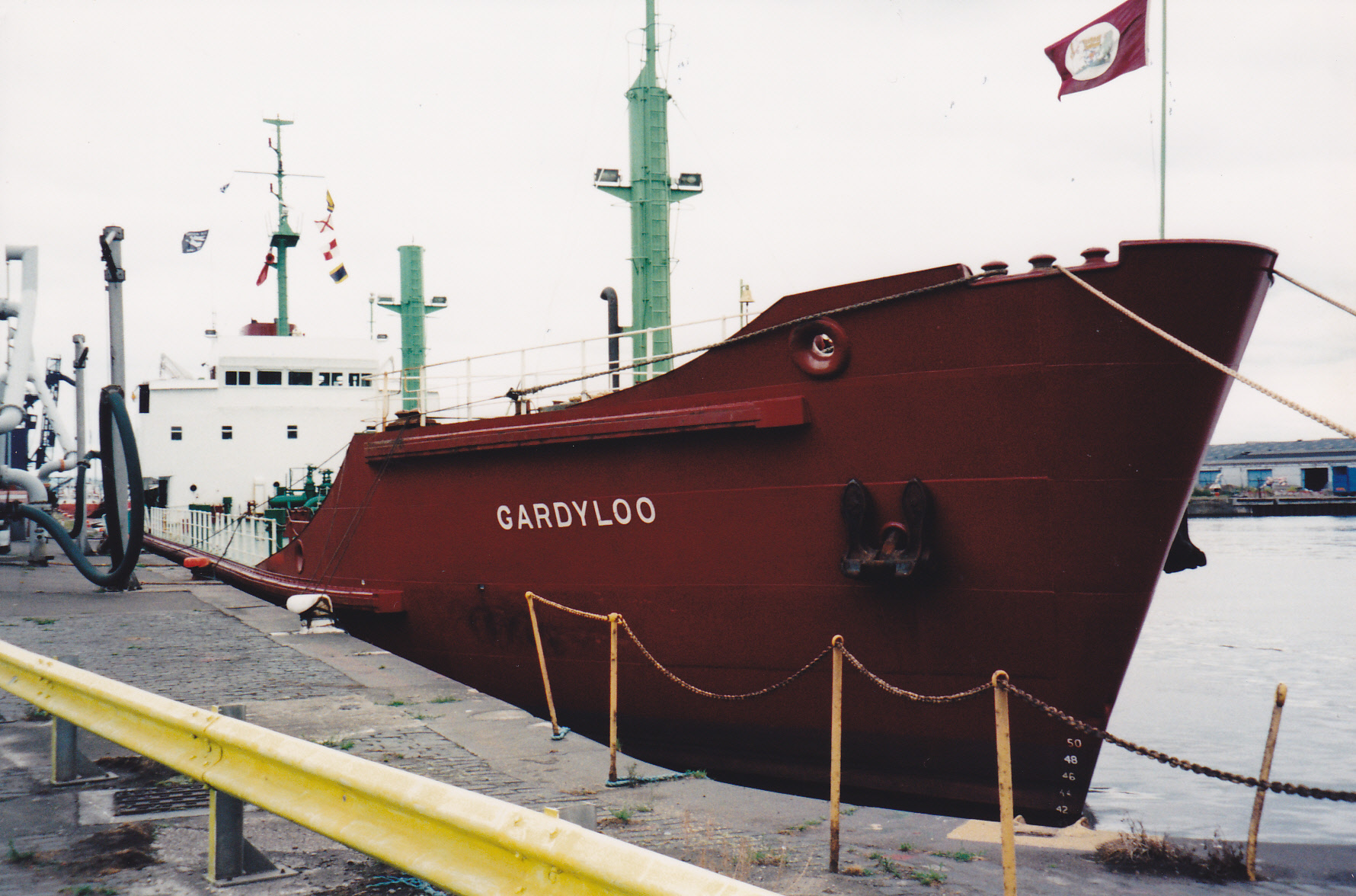 I'm guessing the date - the photo was tucked in with the photos from the Tall Ships